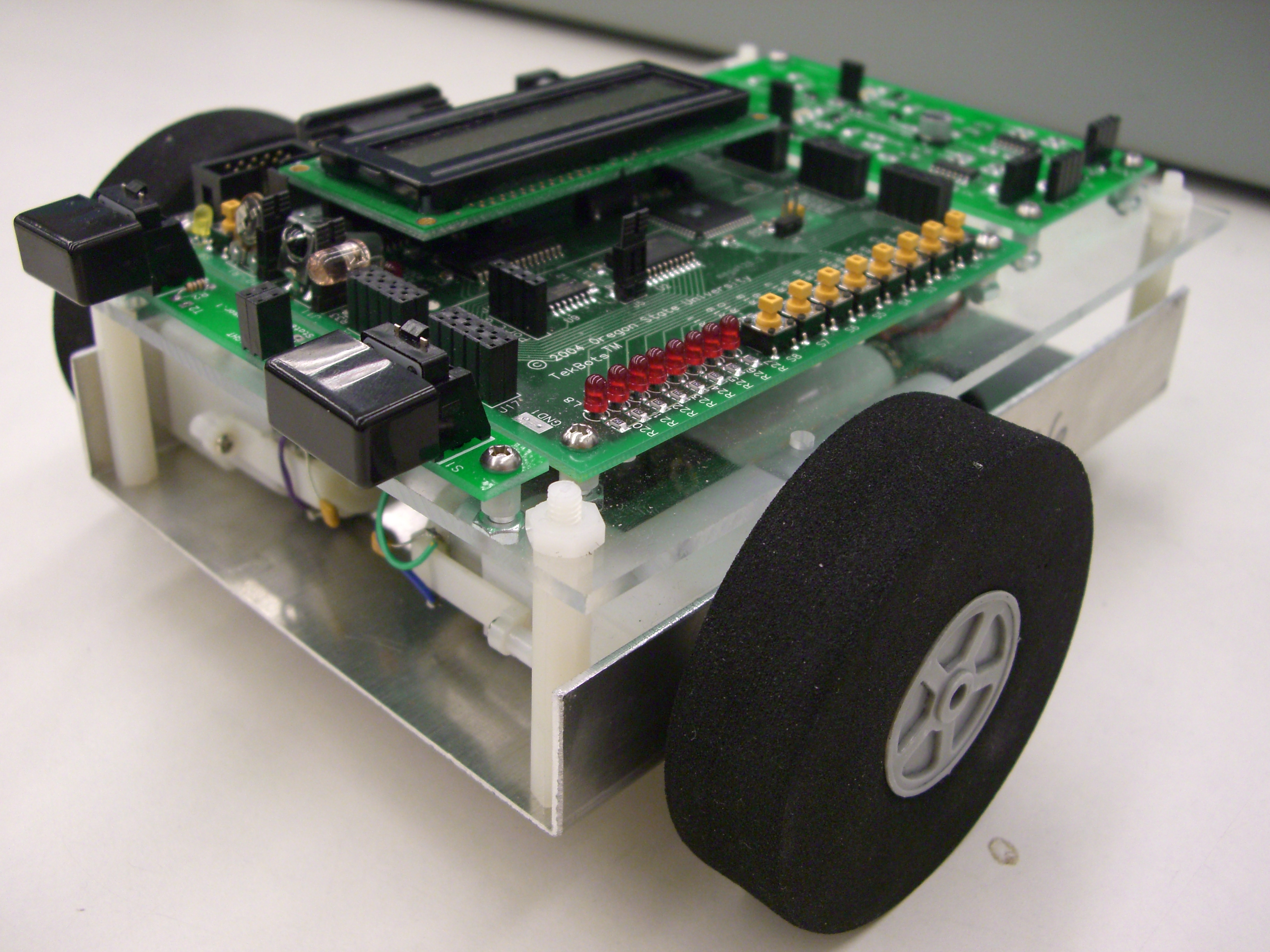 Picture of a TekBot equiped with the atmega 128.2 microcontroller board